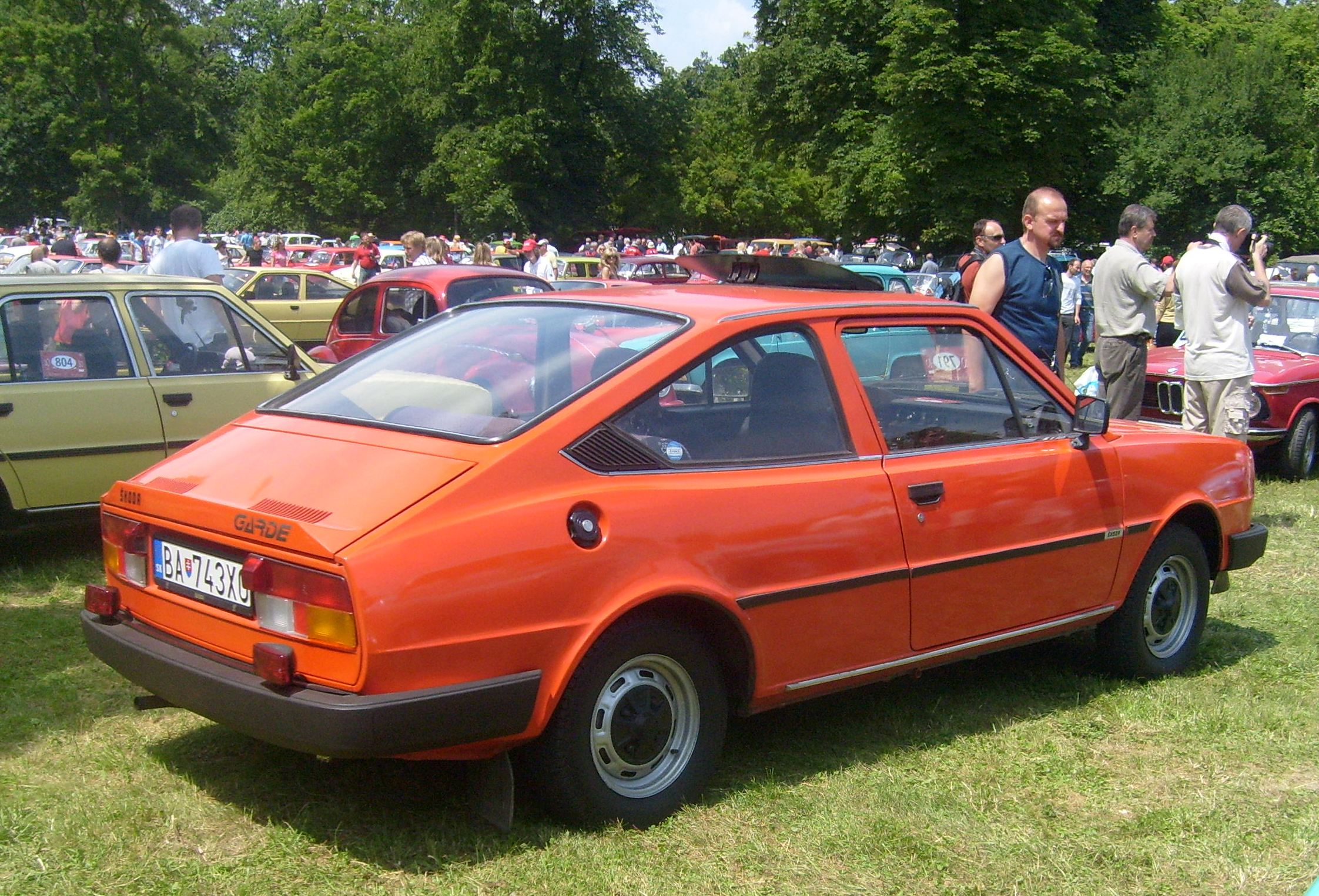 2+2 Coupé Skoda Garde (1982), 1174ccm, 42kW by 5200rpm, top speed 153 km/h